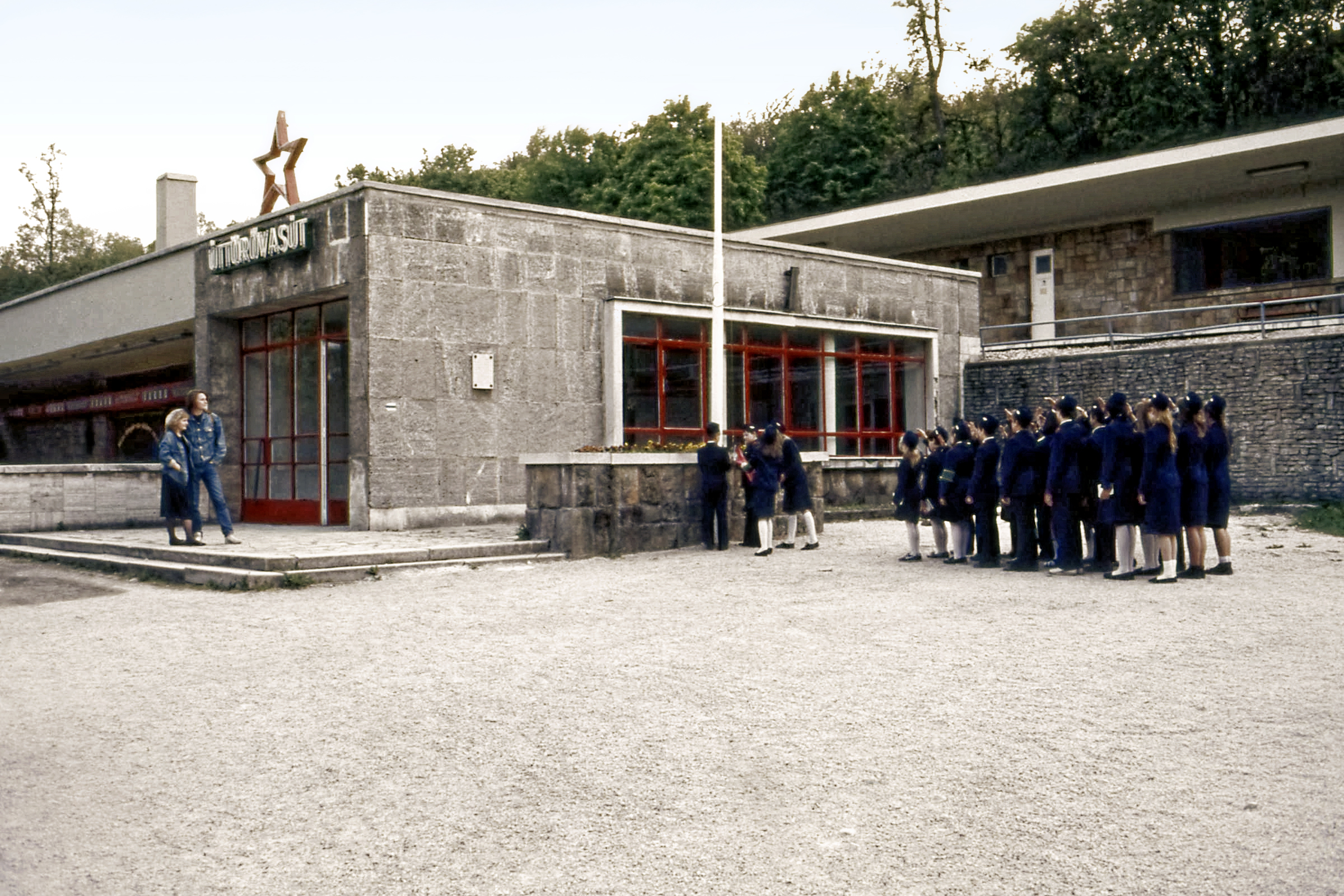 Zászlólevonás a Gyermekvasút (Úttörővasút) végállomásánál. - Budapest II. kerület, Hűvösvölgy városrész, Hűvösvölgy állomásra vezető út. Original image description on Flickr: At the end of the day, the young workers on the Pioneer Railway hauled down the flag ceremonially outside the station. The young communists did all the jobs on the railway except drive the locomotives,apparently. After the political changes, which were just starting to take place in 1988, of 1989, the stars disappeared from the station and locomotives and the red scarves became blue and the pioneers' greeting changed. Otherwise it continues to run as before, perhaps also without this ceremony. This railway was constructed in the late 1940s. The sign below the star says Úttörővasút ,Hungarian for Pioneer railway. Today it is known simply as the children's railway - Gyermekvasút .